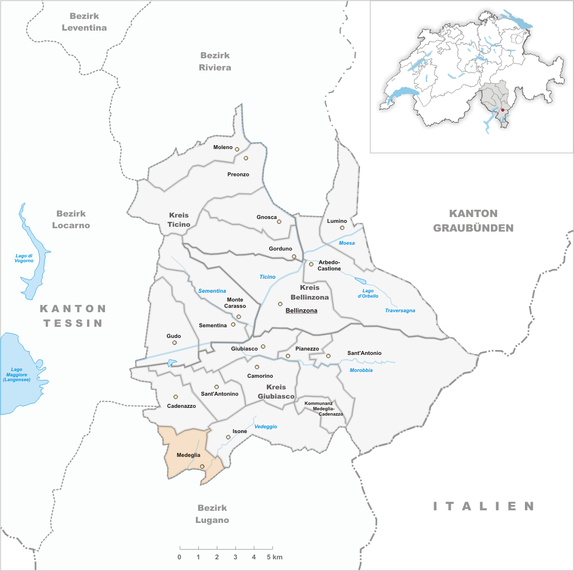 Municipality Medeglia